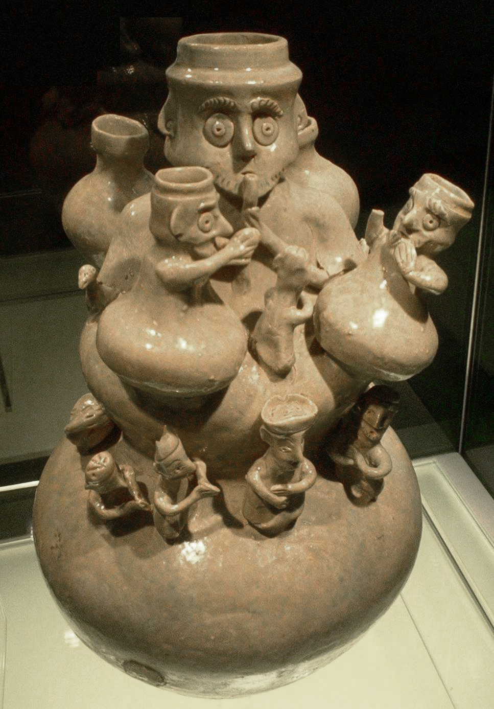 Kingdom of Wu jar, Shanghai Museum, personal photograph 2005, released in the Public Domain.